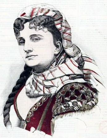 French opera singer Hortense Schneider (1833-1920) in the title role of Offenbach's La Périchole.